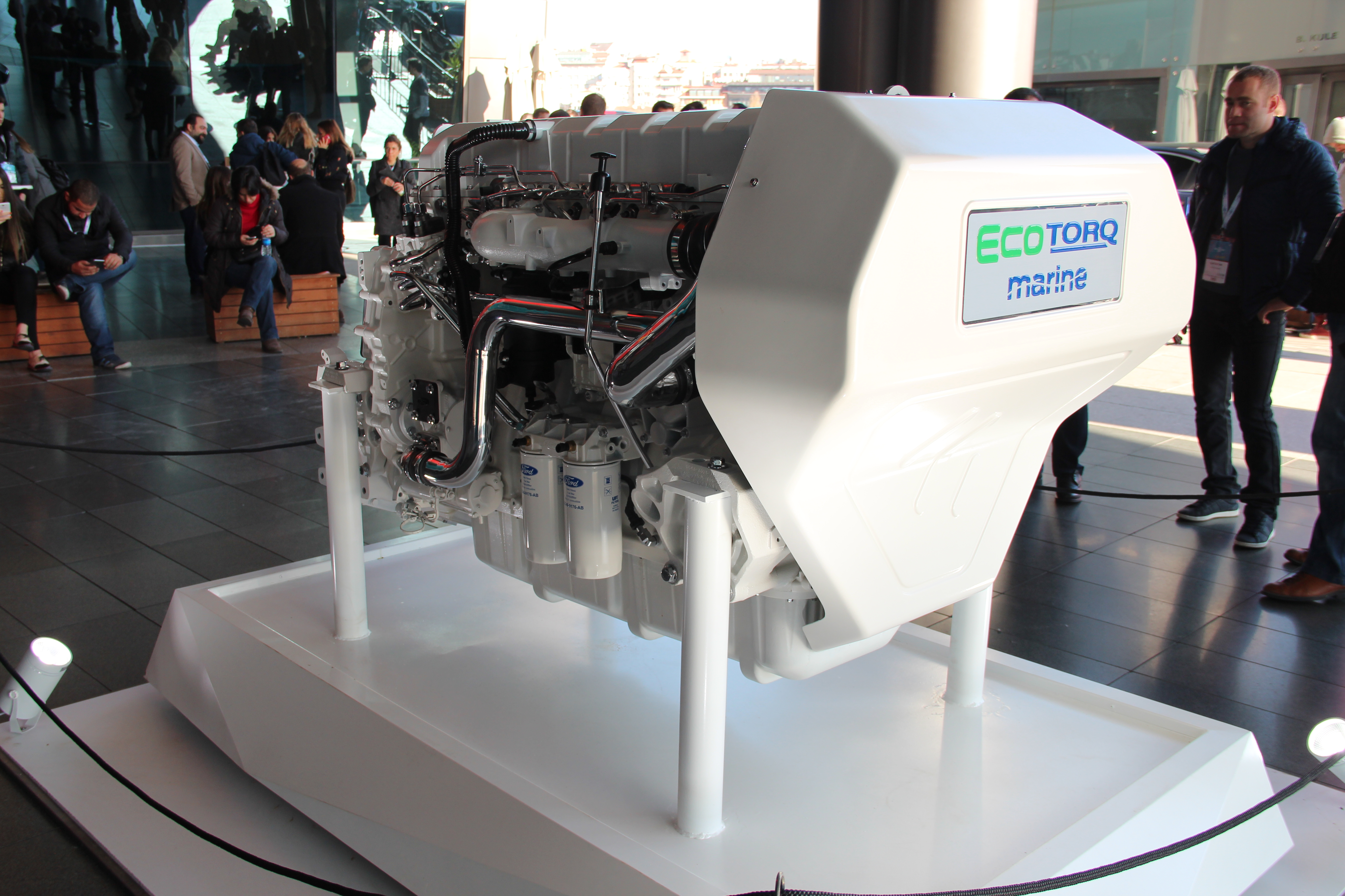 Ford Ecotorq Marine Engine at 2016 Turkey Innovation Week